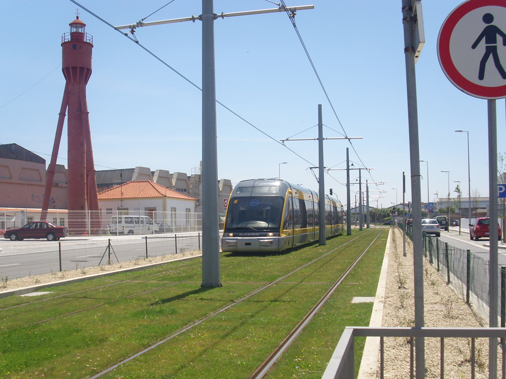 Porto Metro in Póvoa de Varzim near Regufe lighthouse